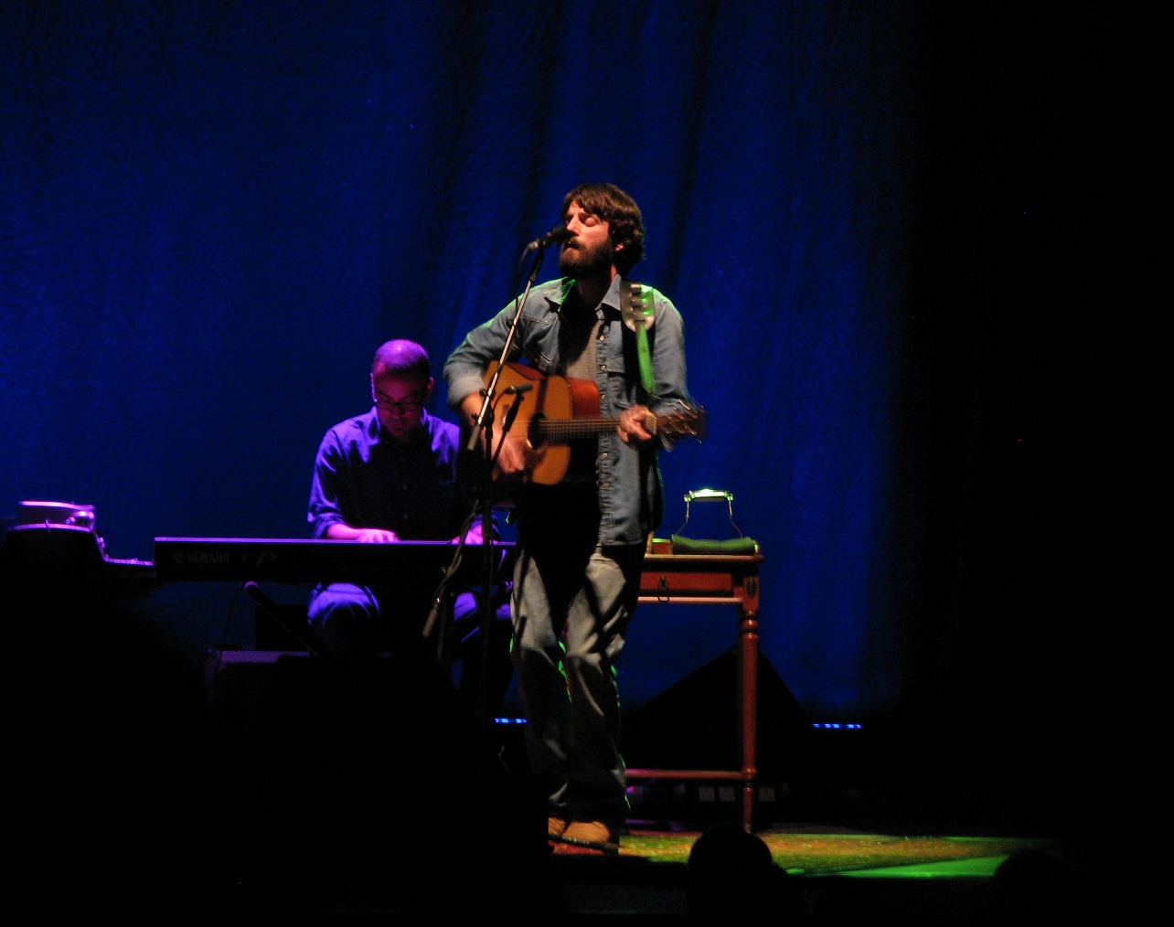 Ray LaMontagne at the Sage Gateshead 13-February-2009